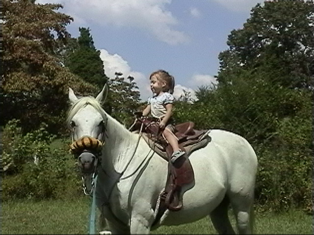 Three year old girl riding an Arabian horse.